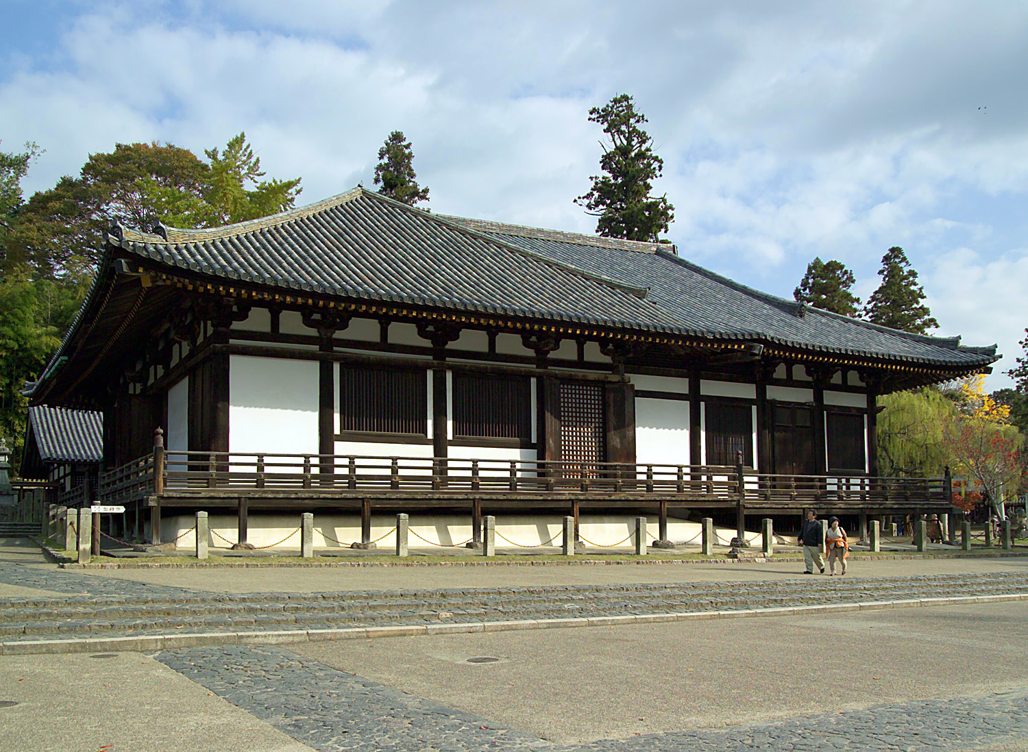 Hokkedô at Todaiji Nara Japan I took this photo and contribute my rights in the file to the public domain; people and organizations retain rights over images in it.